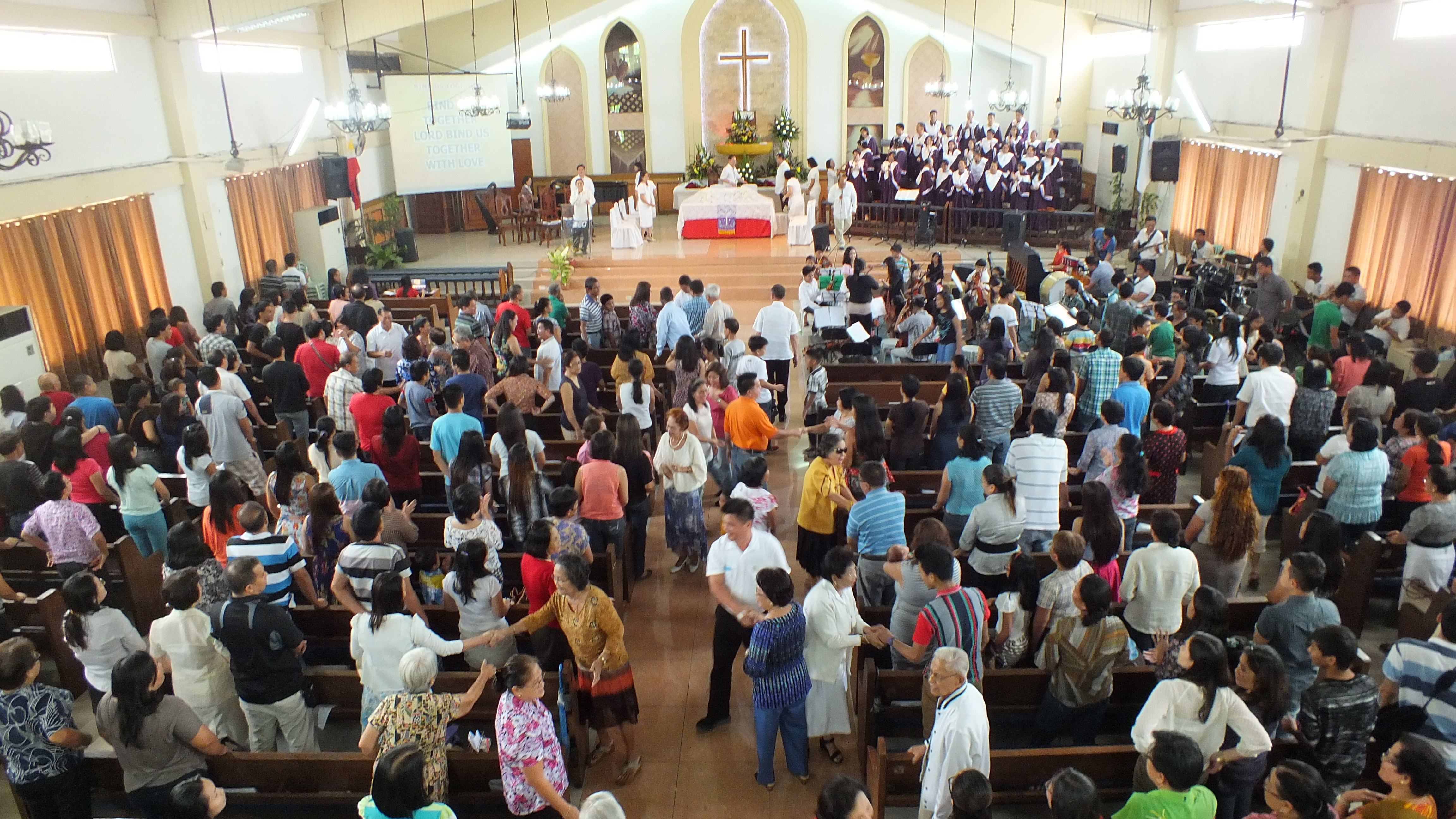 Bacolod Evangelical Church worship service, member of Convention of Philippine Baptist Churches (CPBC)